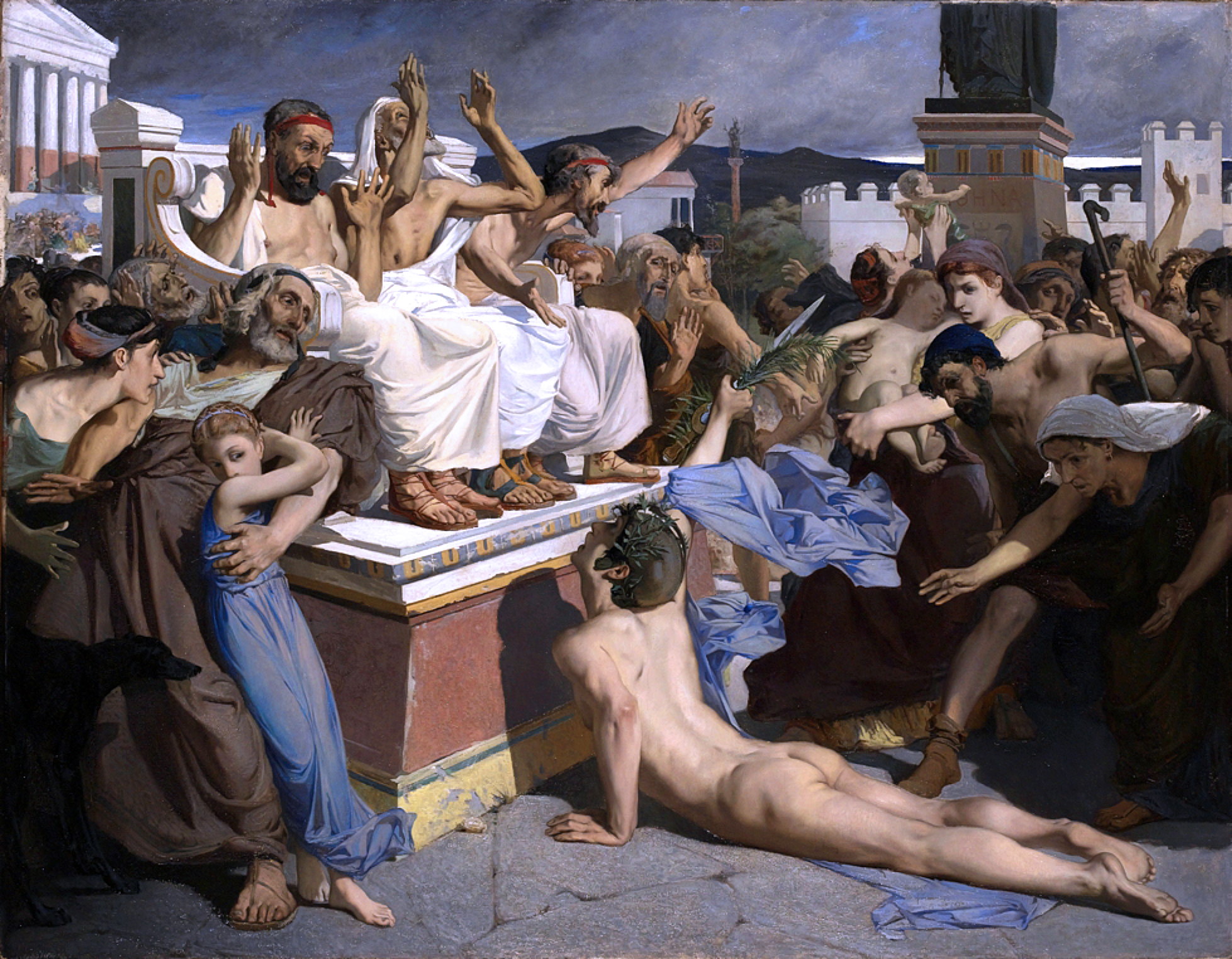 Pheidippides giving word of victory after the Battle of Marathon